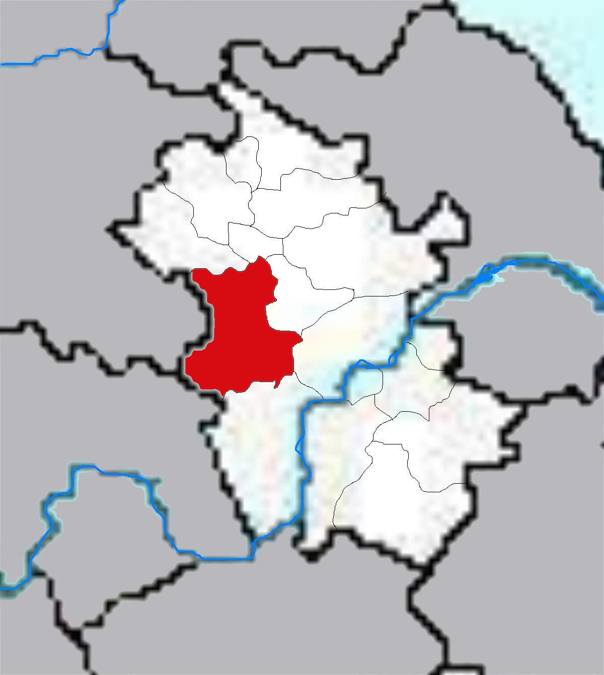 Maps of Anhui Province of China